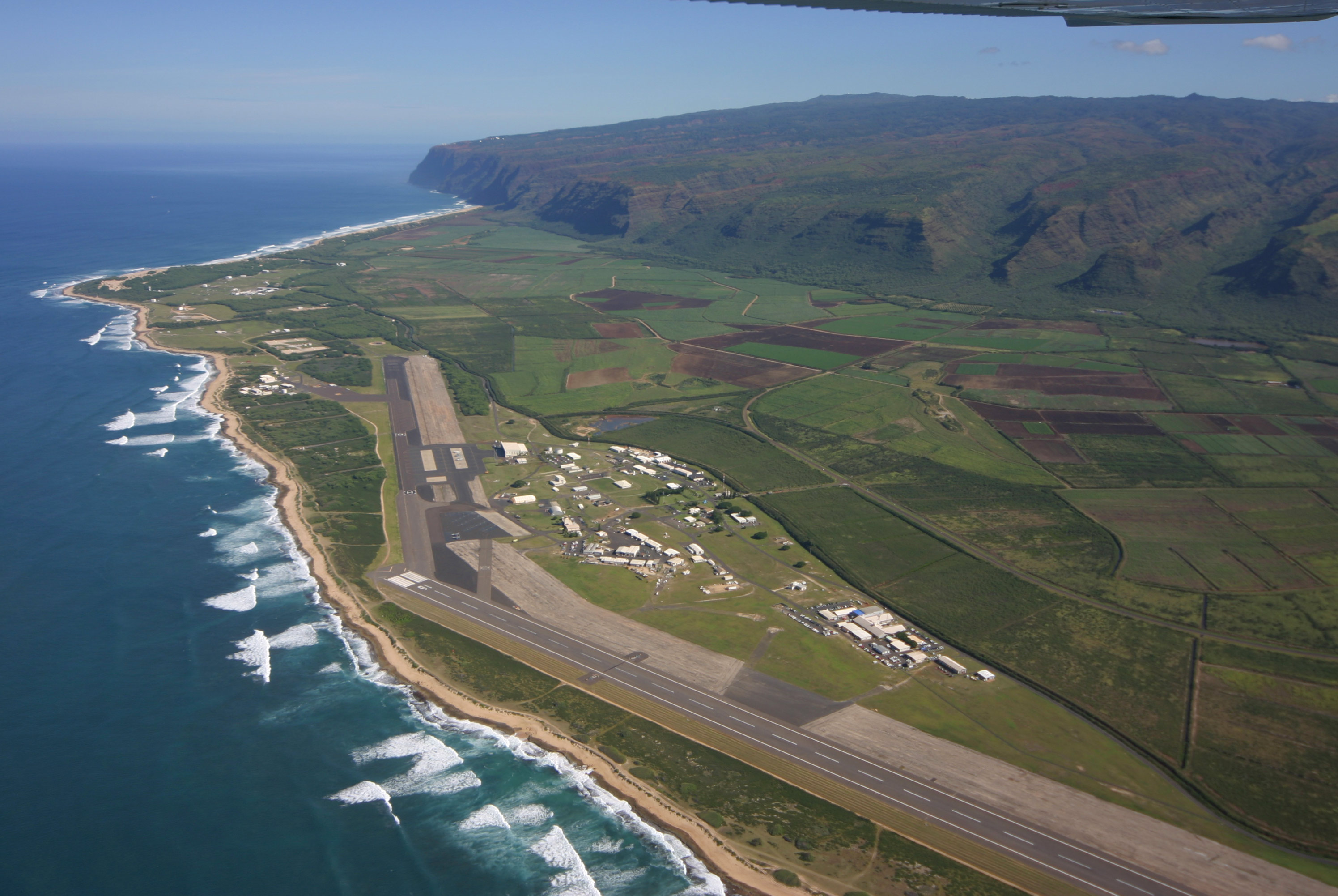 2004 aerial view of PMRF on Kauai, Hawaii.